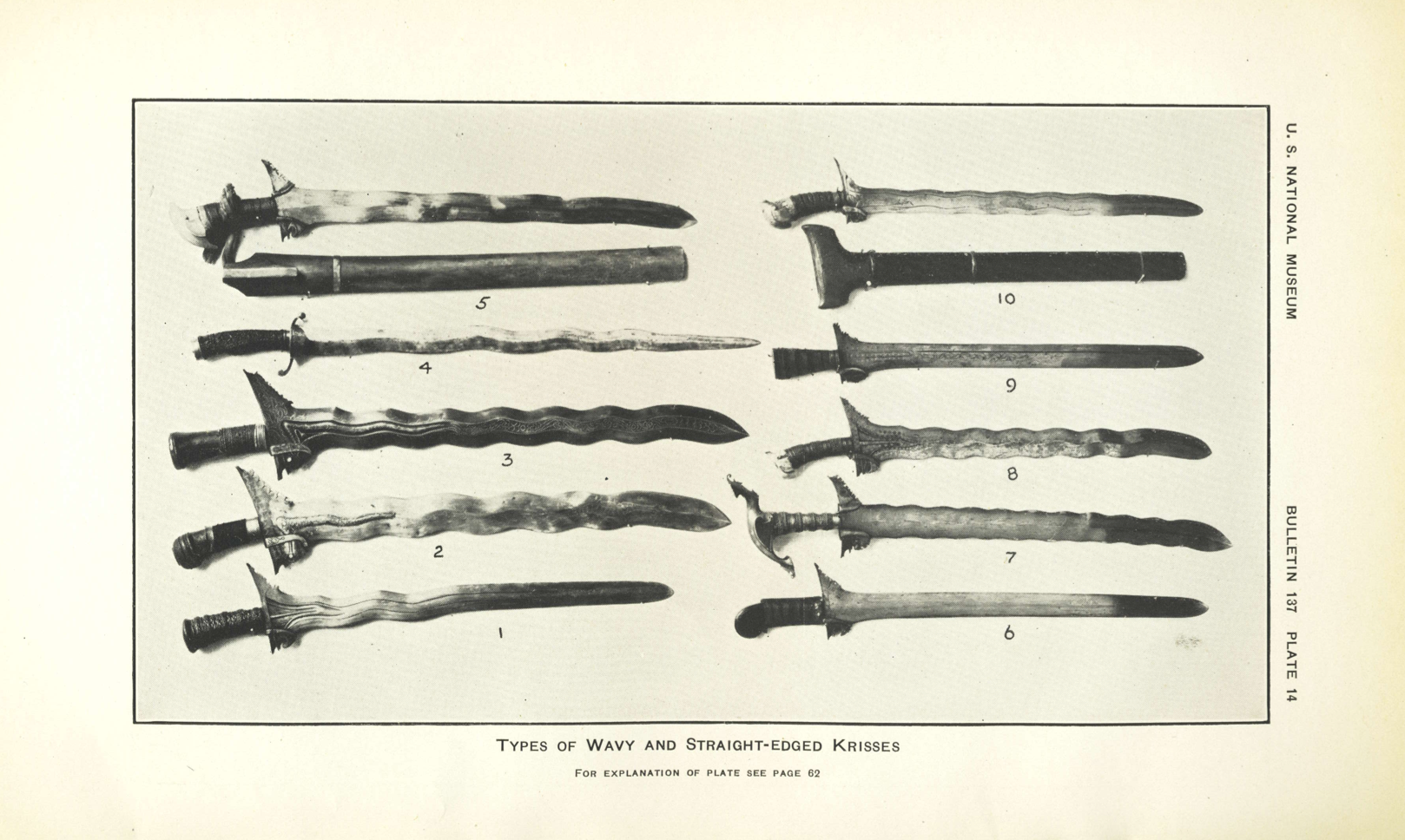 Plate 14 -- Types of wavy and straight-edged krisses. Moro, Mindanao, and Sulu Archipelago. No. 1. Old type of serpentine grooved blade provided with ornamental guard piece and sword breaker fastened with single stirrup; round wooden grip covered with bands of braided rattan. Moro, Mindanao. 2. Datto's kris, of recent production; blade inlaid with sinuous, dragonlike pattern in yellow metal; grip of wood. Lake Lanao, Moro, Mindanao. 3. Serpentine blade inlaid with figured patterns in yellow brass; improvised handle of wood. Moro, Mindanao. 4. Long, tapering serpentine blade; curved guard of silver; elaborately carved horn handle. Kris type showing Spanish influence. 5. Slightly sinuous steel blade; handle wrapped with braided waxed cord on grip section; carved pommel of sea cow ivory; plain old-style wood scabbard. Moro. 6. Straight-edged, slightly curved blade; handle covered with braided cord bands which also serve to fasten spiked stirrup extension for fastening guard and handle to blade. Moro. 7. Serpentine blade; hardwood handle overlaid with banded sheet silver and braided silver cord; crutch-shaped pommel of solid silver. Jolo Island. 8. Serpentine blade; grooved and inlaid with gold metal; single stirrup; wood handle banded with silver and wrapped with silver braid; carved cockatoo-shape ivory pommel. Admiral Wilkes exploring expedition, 1838 -1842. 9. Straight-edged blade, etched and inlaid with copper; wrapped plain flat wood handle. 10. Very old type of grooved flame-shaped blade; symbolically carved ivory figurine on pommel; three-sectioned wood scabbard. Collected by the expedition under Capt. J. J. Pershing, 1903. Lake Lanao, Mindanao. Other images on Filipino weapons by the same uploader are here: (a) Luzon weapons; (b) Visayan weapons; (c) Moro weapons; and (d) Lumad (non-Moro Mindanao) weapons